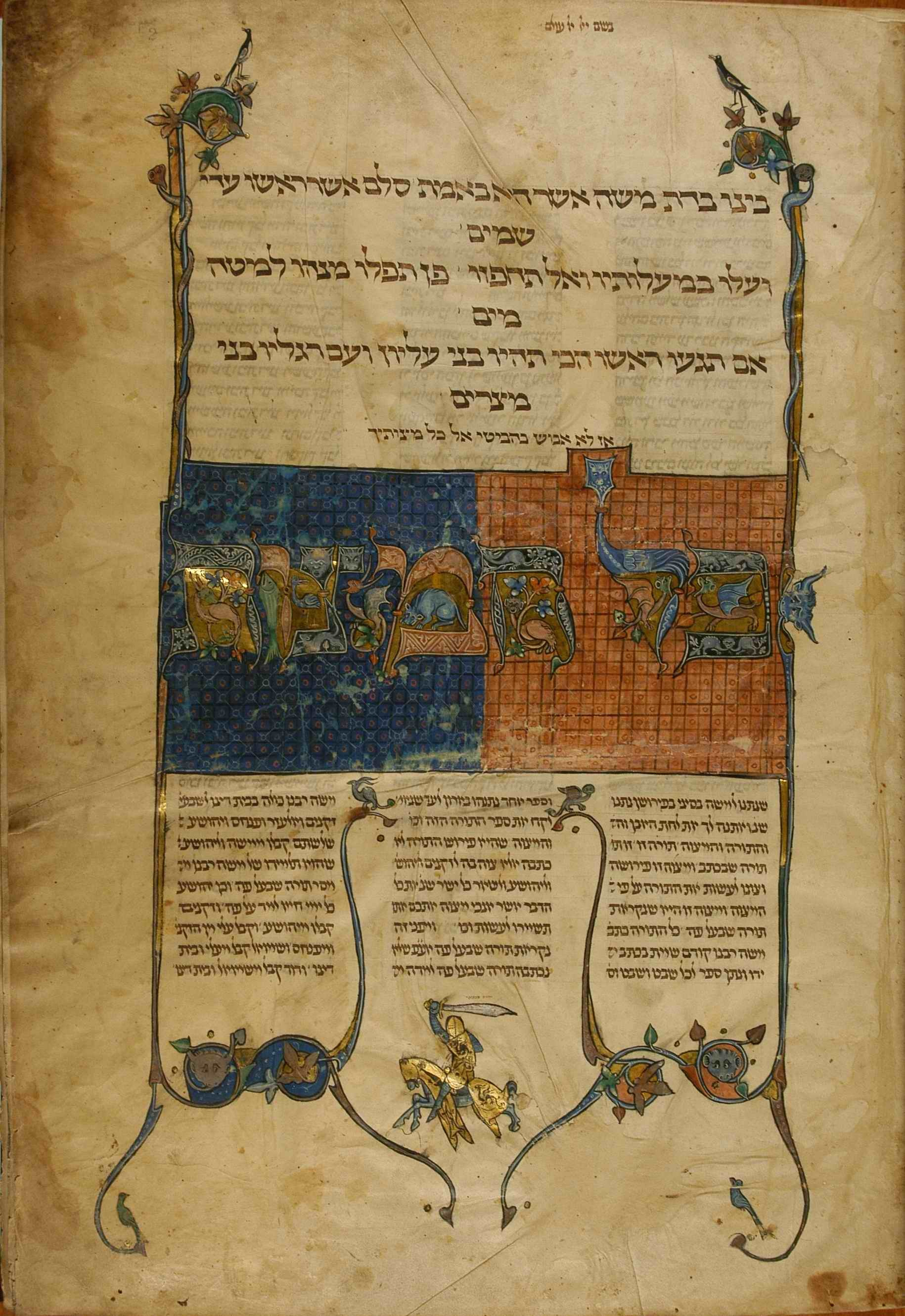 The opening of Maimonides' "Mishne Torah", copied and illuminated in northwestern France. MS Kaufmann 77A, Library of the Hungarian Academy of Sciences, Budapest.